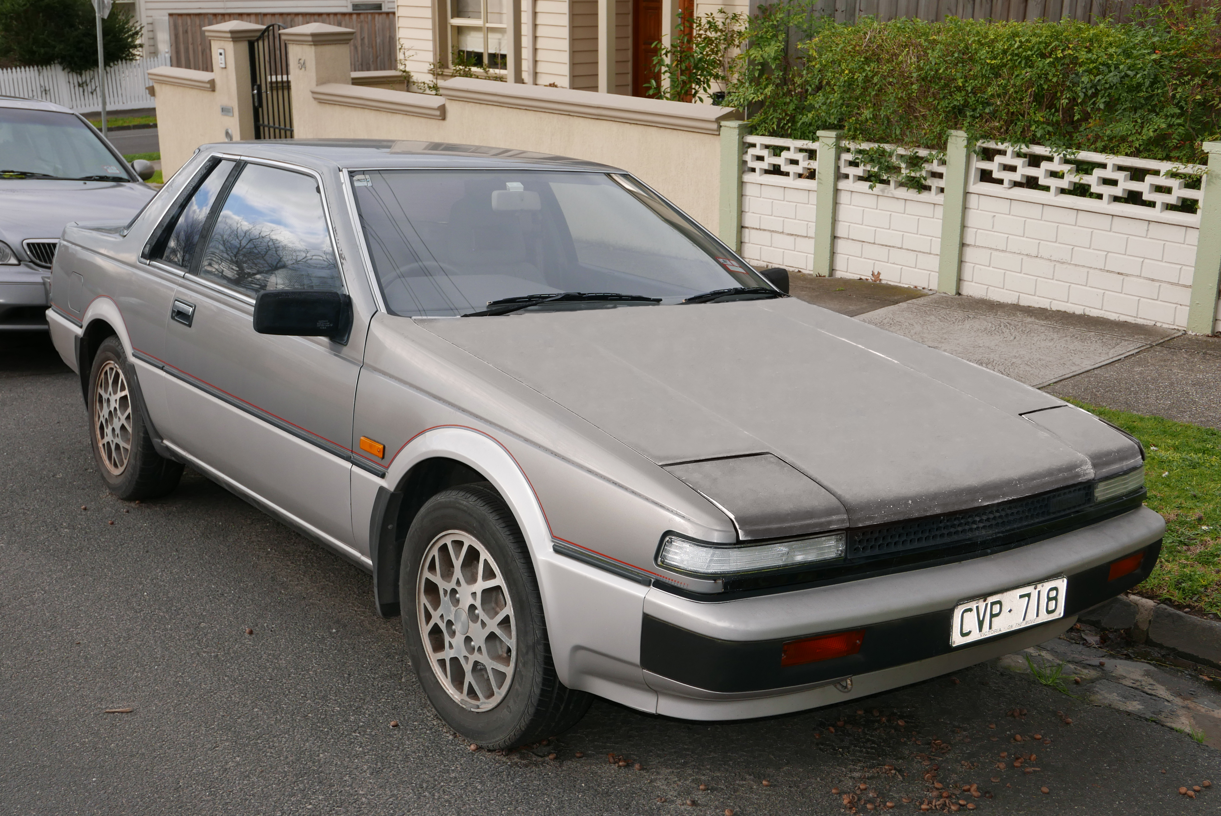 1986 Nissan Gazelle (S12) SGL coupe. Photographed in Kew, Victoria, Australia. Vehicle registration enquiry results Jurisdiction Victoria Registration CVP718 Chassis code Not available Engine code CA20252392A Compliance date Not available Year of manufacture 1986